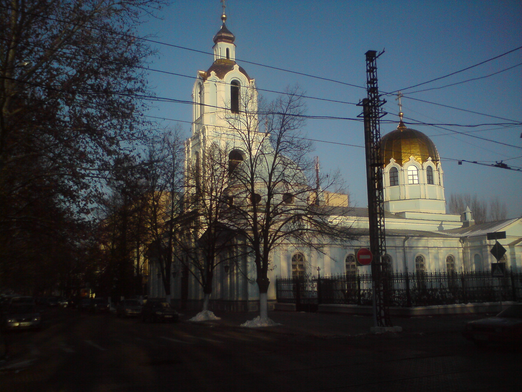 Cathedral of the Nativity of the Virgin, Mykolaiv